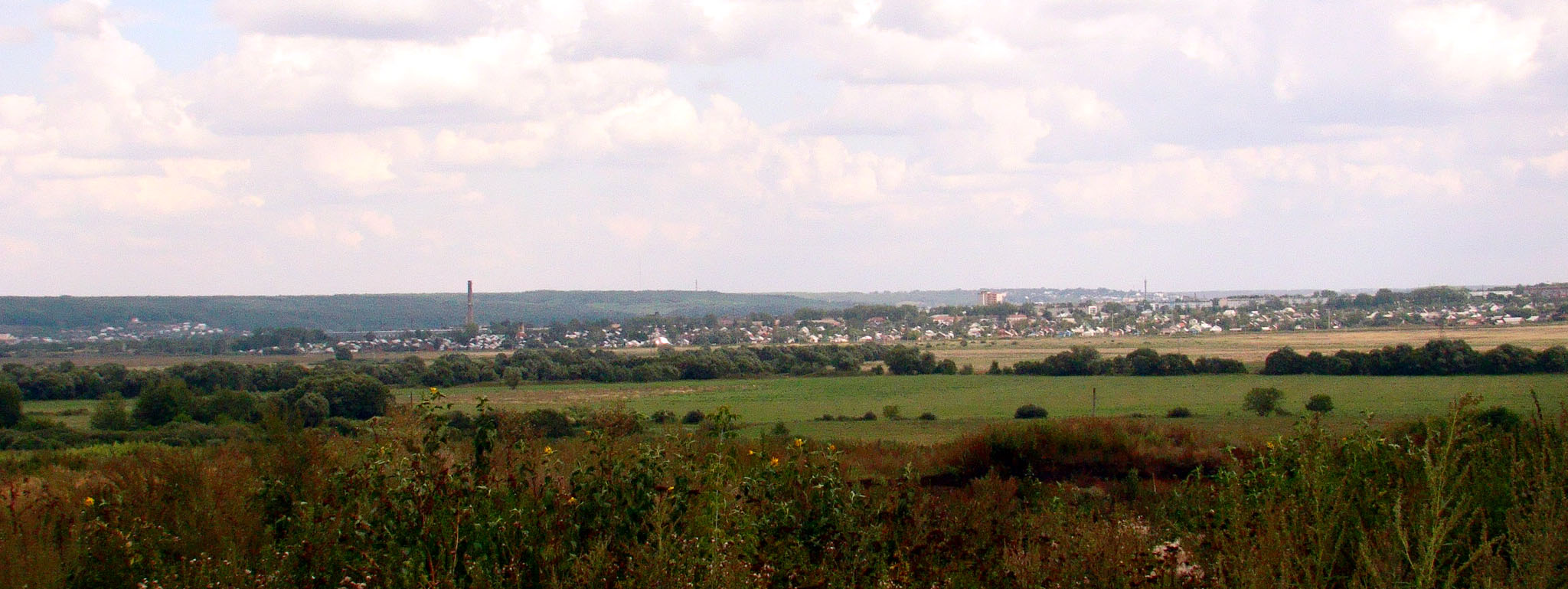 Kamenka town. Russia, Penza Region.